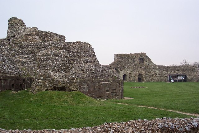 Originally a Roman Saxon Shore fort called Anderitum, built in about AD290. The walls survive to an impressive height. Unlike most Roman forts which are of decidedly square shape, this one follows the lines of the peninsula on which it was built. Originally the sea lapped against its walls but it is now nearly a mile away. The Normans used the fort for their overnight camp before the Battle of Hastings and soon after built the castle (seen here) in a corner of the fort. The castle was further fortified in World War II.